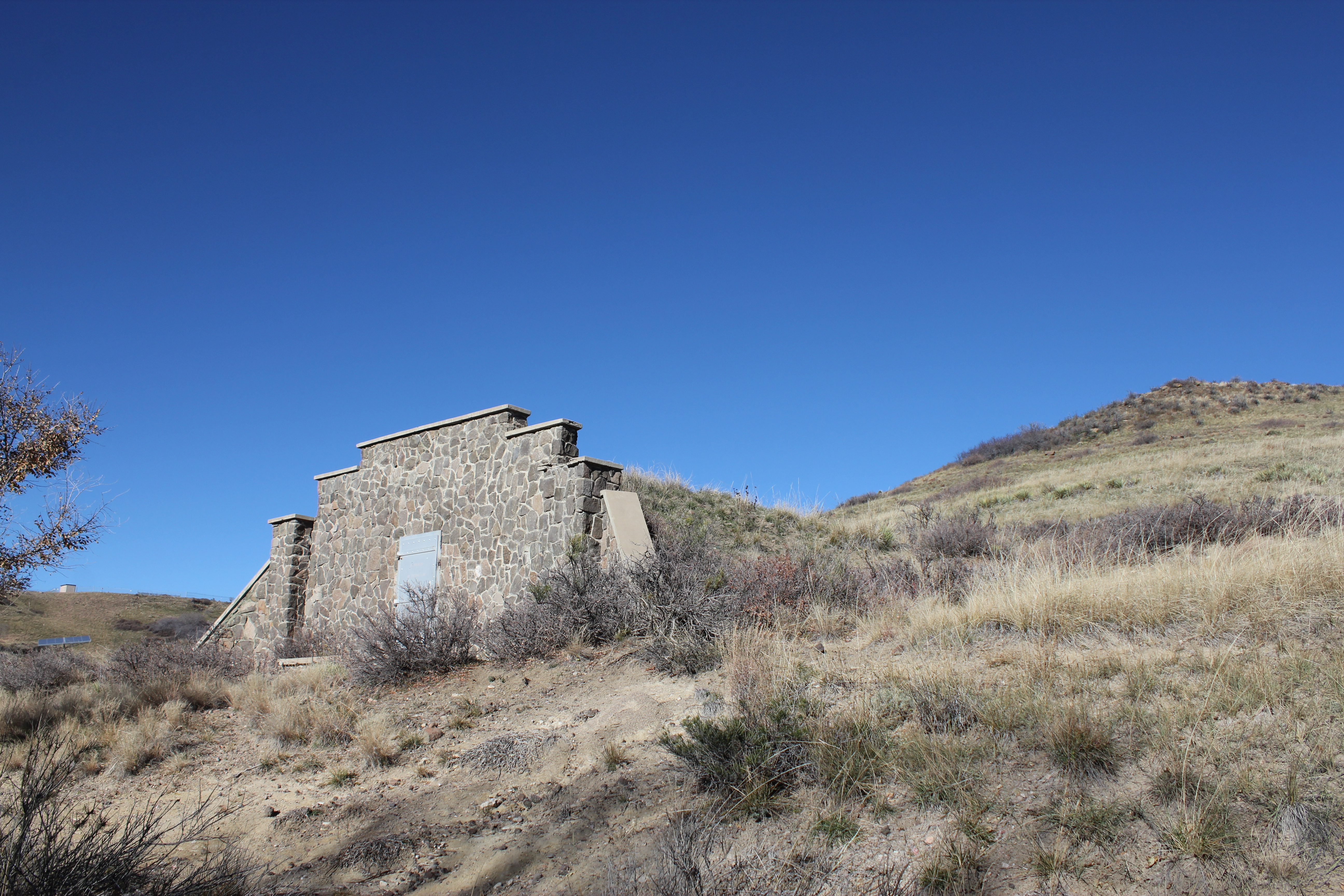 Ammunition Igloo, located at 15001 Denver West Parkway in Golden, Colorado. The property is listed on the National Register of Historic Places.